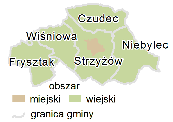 Subcarpathian Voivodeship - strzyżowski county gminas